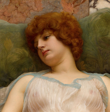 Idle Moments by John William Godward. Signed and dated "J.W. Godward / 1895" Oil on canvas